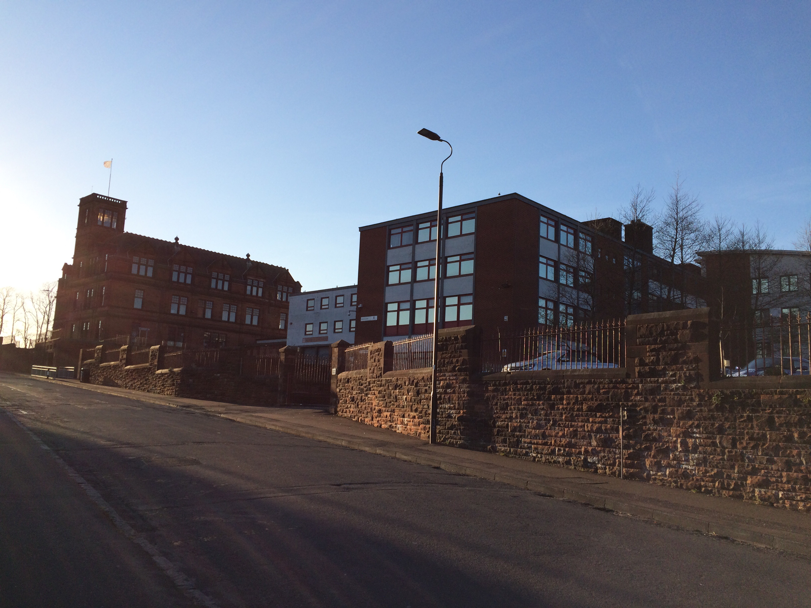 Kilmarnock Academy complex